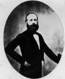 Portrait of Felice Orsini (1819–1858), Italian nationalist and Carbonari leader who attempted the assassination of Napoleon III.